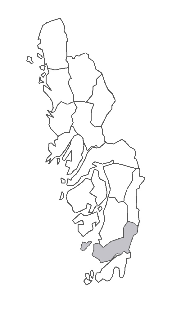 Map describing the location of Inland Södre Hundred in Bohuslän Province, Sweden.